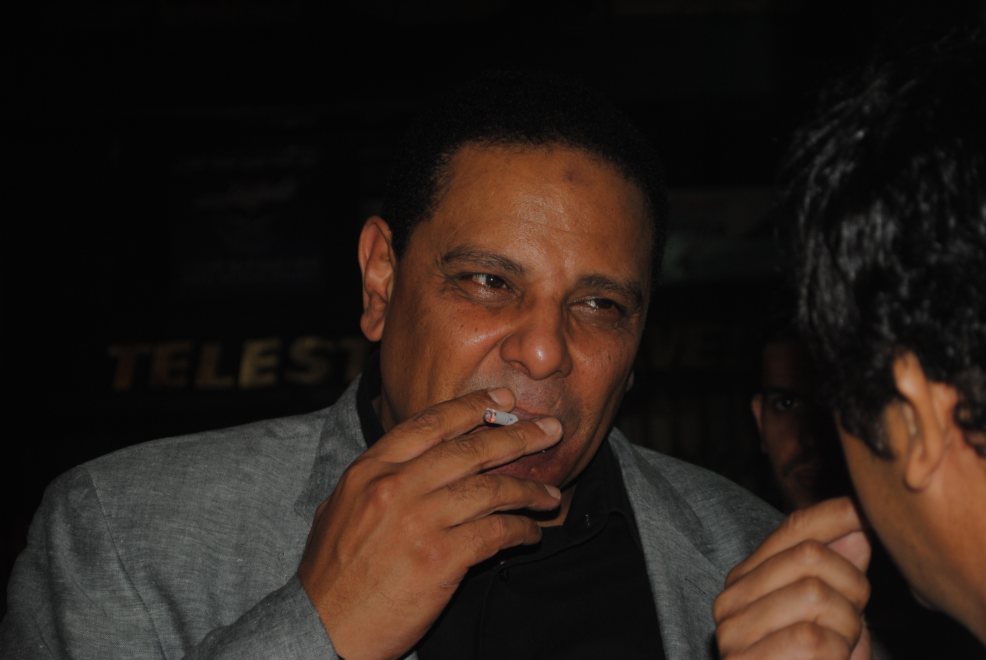 Alaa Al Aswany in Tahrir Square on the 12th of August